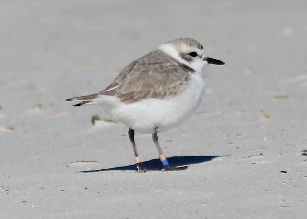 A banded Snowy Plover Charadrius nivosus in winter plumage from Cape San Blas, Florida. Taken December 2013.